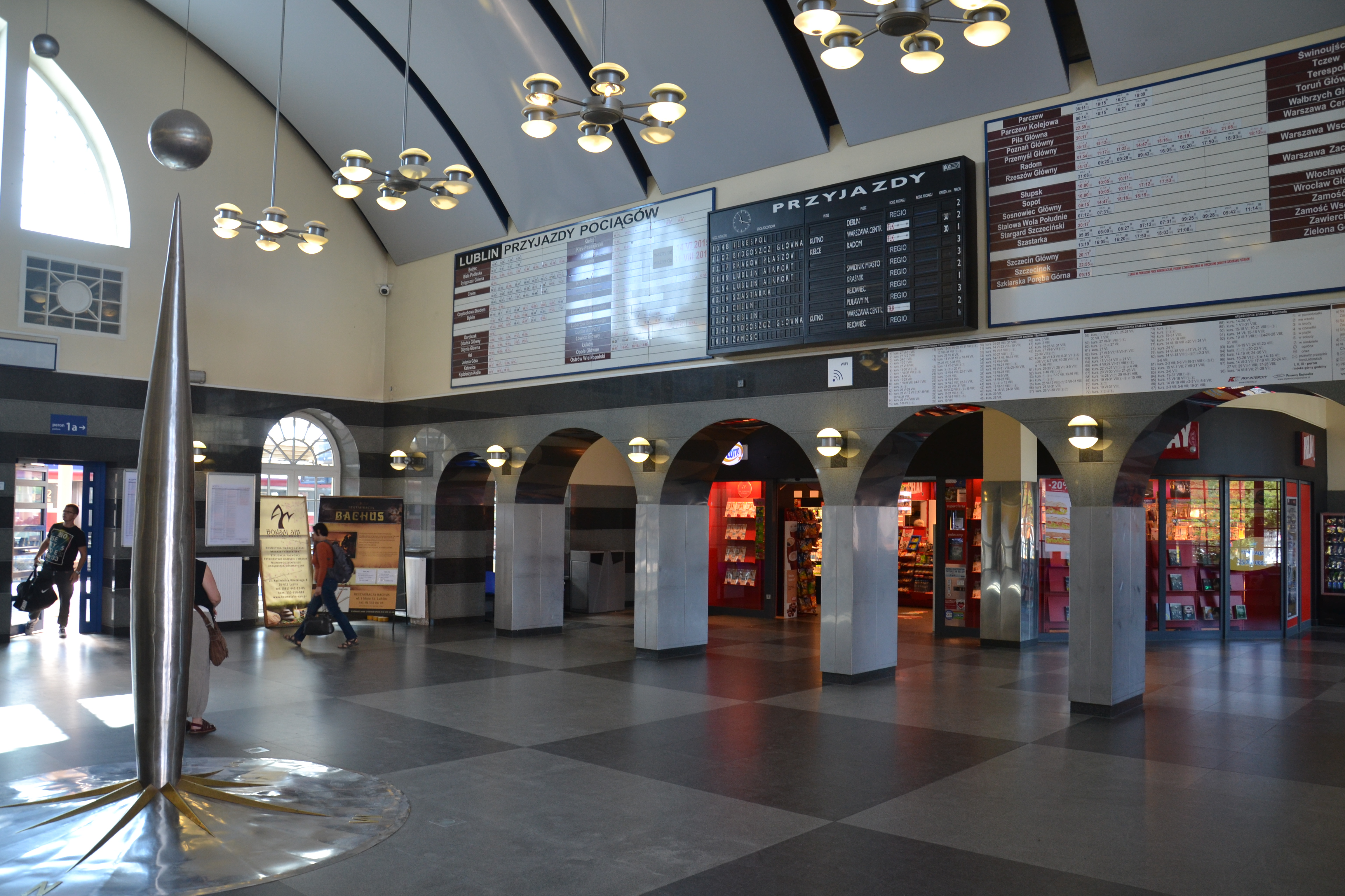 Widok wnętrza dworca w Lublinie This photo was taken during Railway Wikiexpedition 2015 set up by Wikimedia Polska Association in cooperation with Fundacja Grupy PKP. You can see all photographs in category Wikiekspedycja kolejowa 2015.